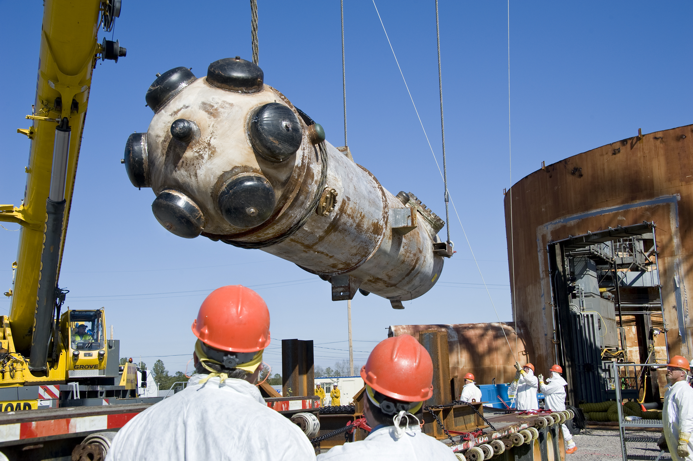 Work is under way to decommission the Heavy Water Components Test Reactor, which had been used to test experimental fuel assemblies for commercial heavy-water power reactors. SRS is scheduled to remove the dome of the reactor this month (January 2011). Workers also will displace the reactor vessel and steam generators, grout the remaining structure in place, and install a concrete cover over the reactor’s footprint.